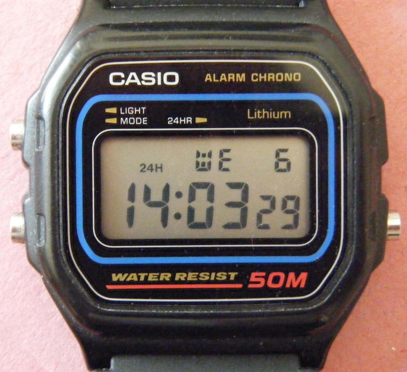 Casio W-59 watch